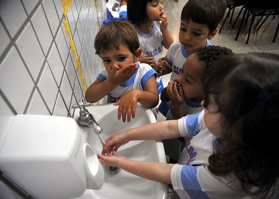 Kids washing hands.